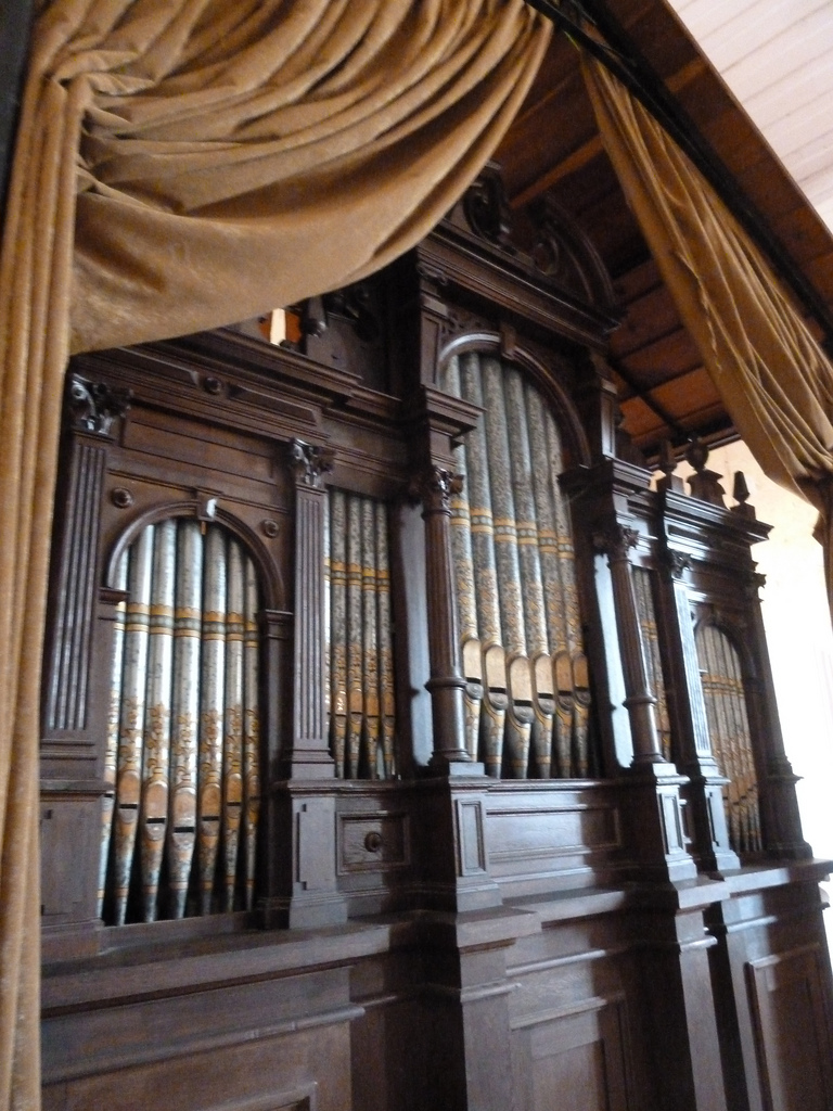 Racholorgan